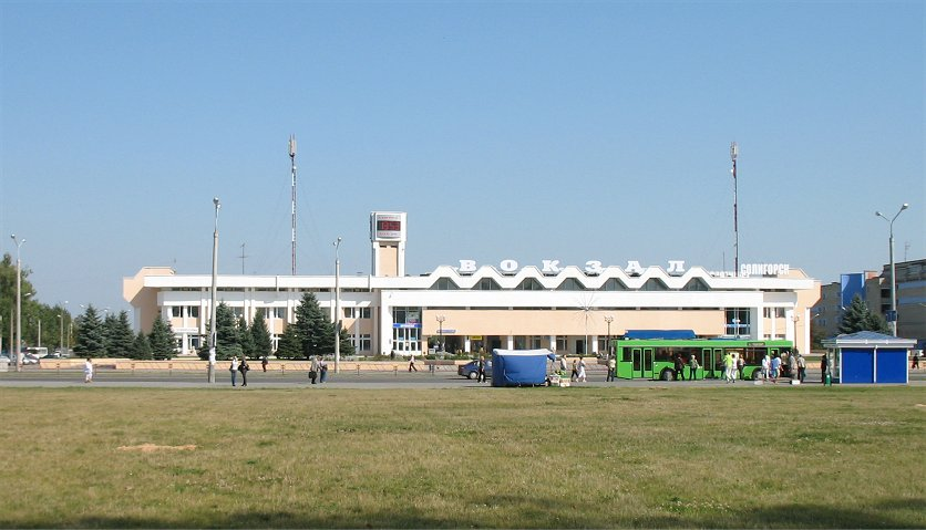 Soligorsk Railway Station, from here the railway leads to the north (Slutsk). Soligorsk (Salihorsk) is located in Minsk province, in Belarus.